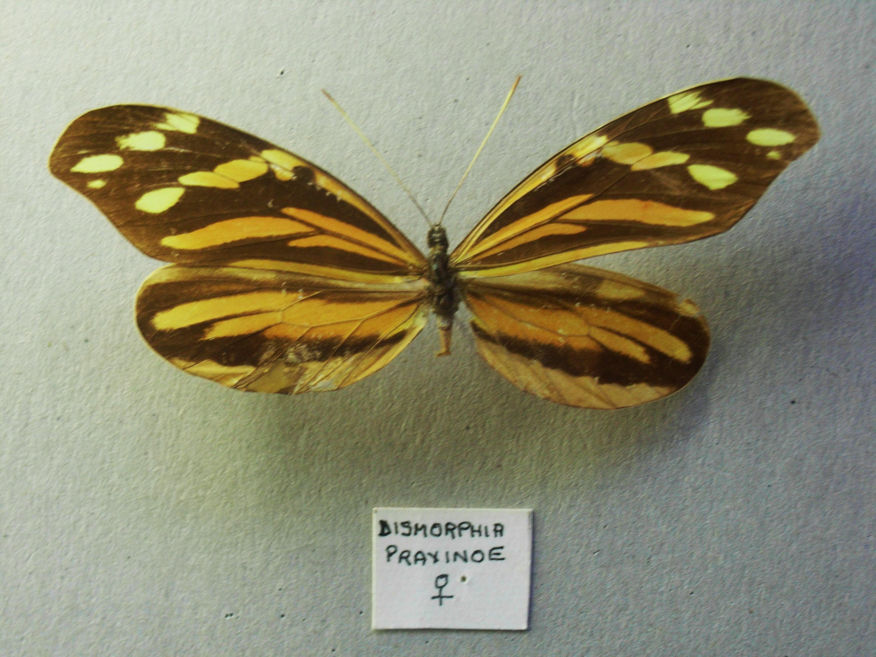 Dismorphia praxinoe female:Pierinae:Pieridae